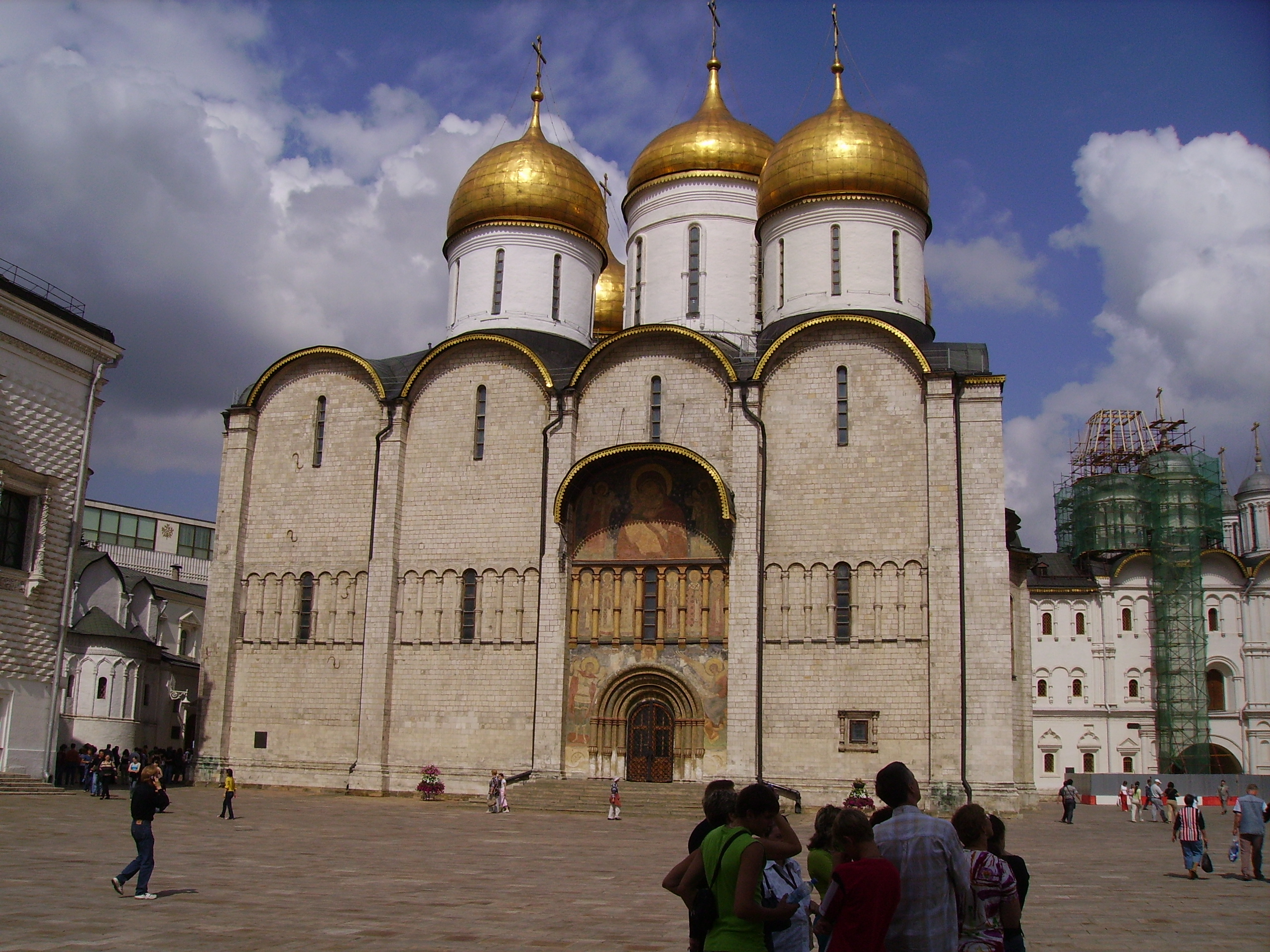 Assumption Cathedral in Moscow.